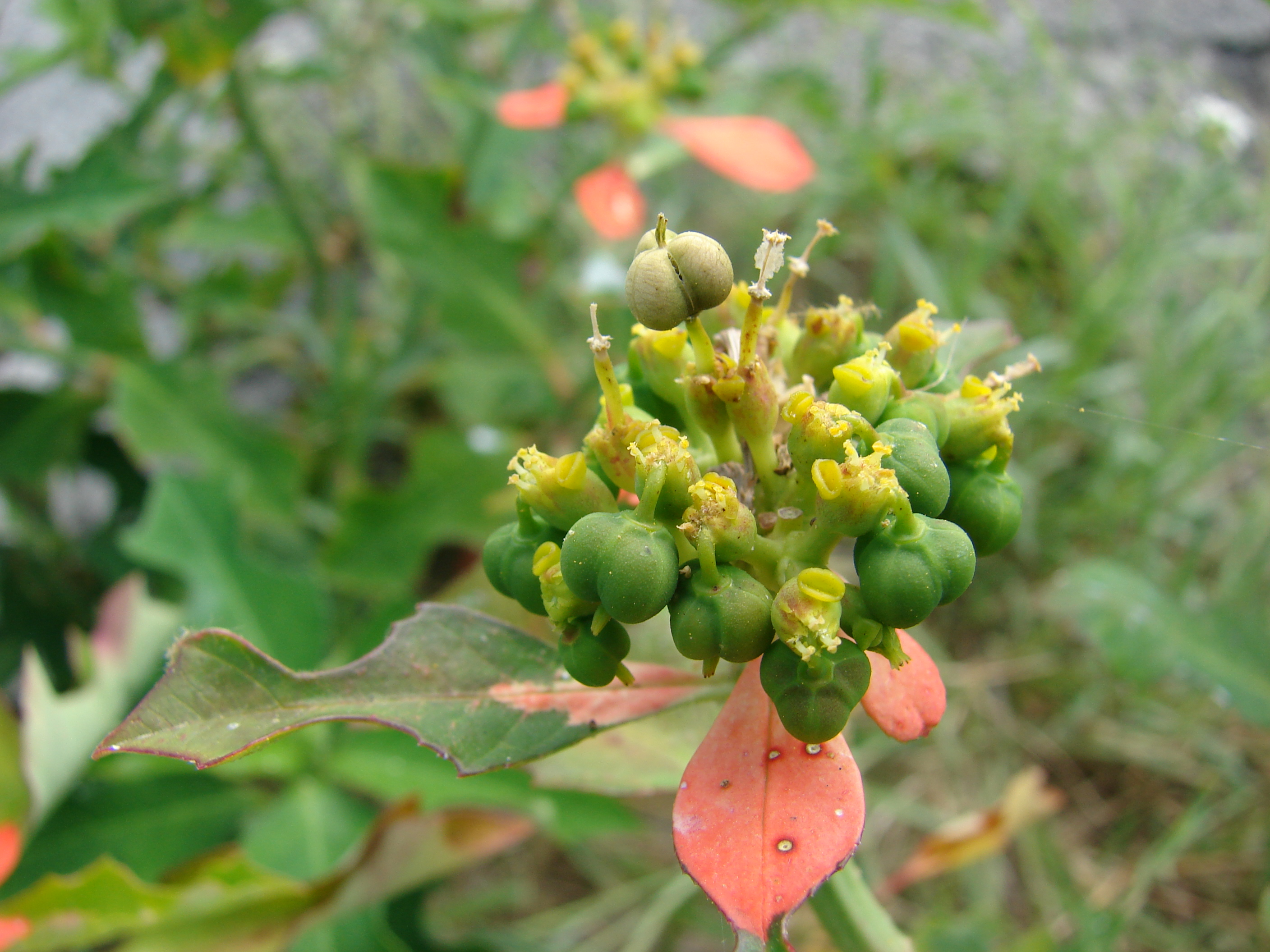 Euphorbia cyathophora (leaves flowers and fruit). Location: Midway Atoll, Old Fuel Farm Sand Island